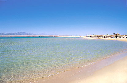 Photo of Soma Bay Beach, author gave permission to use publicly